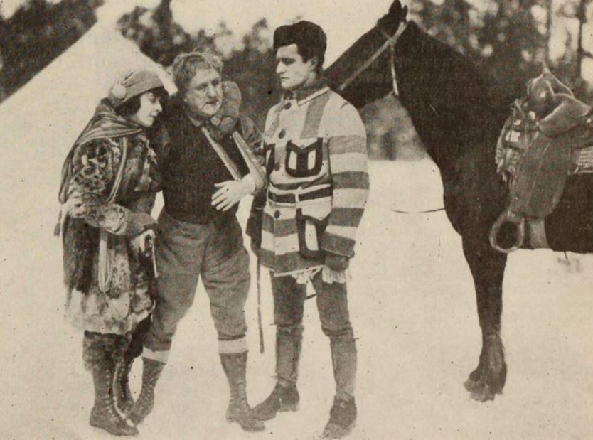 Still from the American western film The Wilderness Trail (1919) with Colleen Moore, Frank Clark, and Tom Mix, on page 47 of the June 7, 1919 Exhibitors Herald. Mix is wearing a Hudson Bay blanket coat or capote.